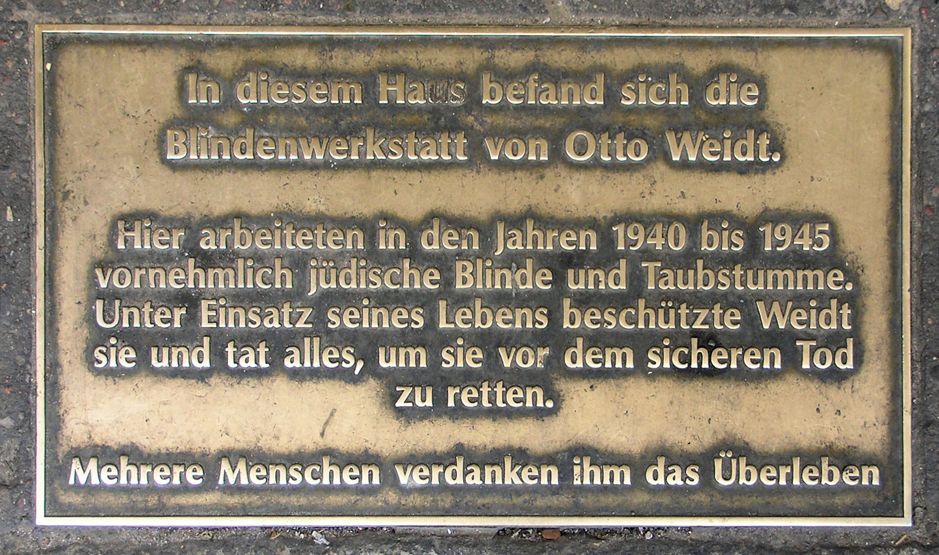 Memorial plaque, Otto Weidt, Rosenthaler Straße 39, Berlin-Mitte, Germany